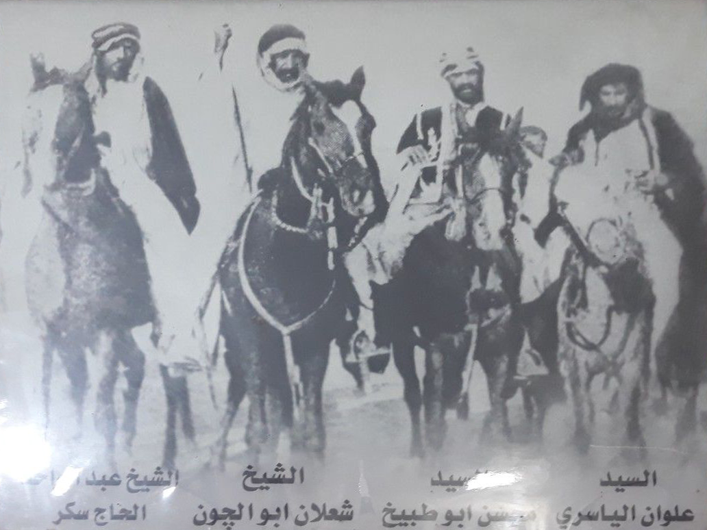 A picture combining Mr. Alwan Al-Yasiri, Mr. Mohsen Abu Tabikh, Sheikh Shaalan Abu Al-Joun and Sheikh Abdul Wahid Al-Haj Sukkar.